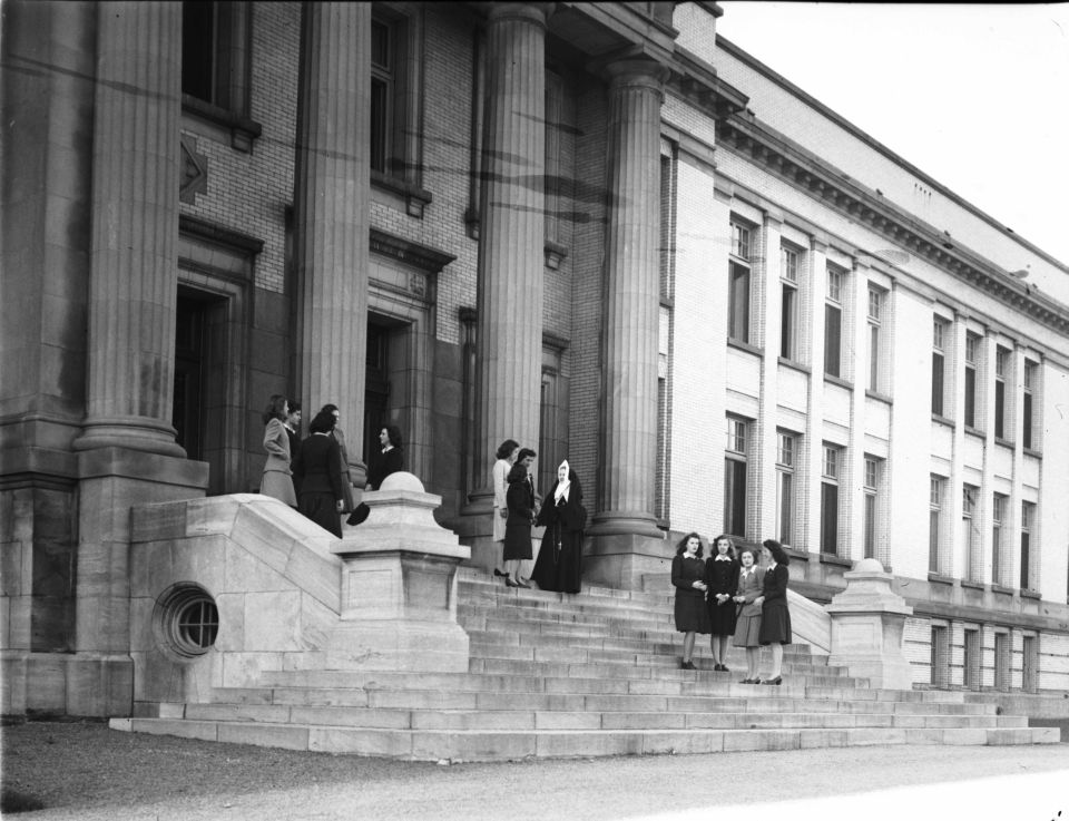 A religious of the Congregation of Notre Dame and secular stand on the steps of the building that housed the Pedagogical Institute in Montreal and Marguerite-Bourgeoys College Avenue in Westmount Westmount. This building became the headquarters of the Sisters of the Congregation of Notre Dame.